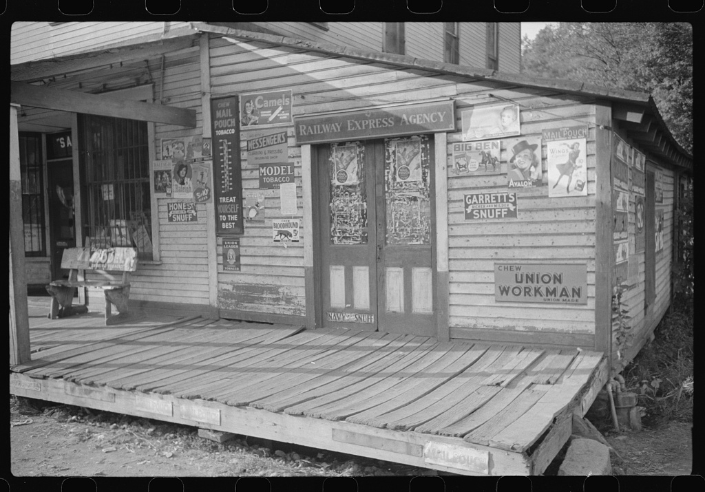 A commissary, sometimes called a "company store," in Scotts Run, West Virginia. Scotts Run was a coal mining camp just outside modern Morgantown.